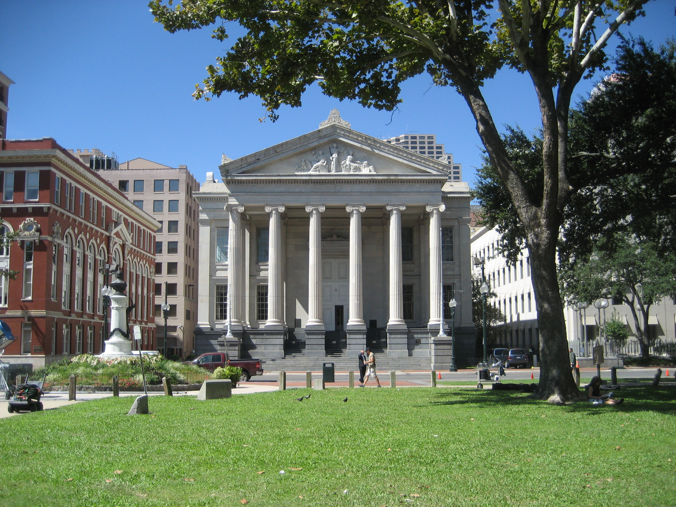 Lafayette Square, New Orleans with view of Gallier Hall